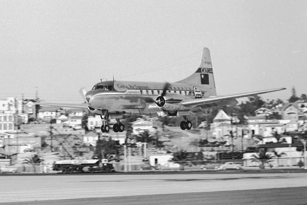 Chinese Central Air Transport XT-608 landing at San Diego on October 26, 1948. This is a 1-1/4 inch image in the middle of a large negative (no telephoto).